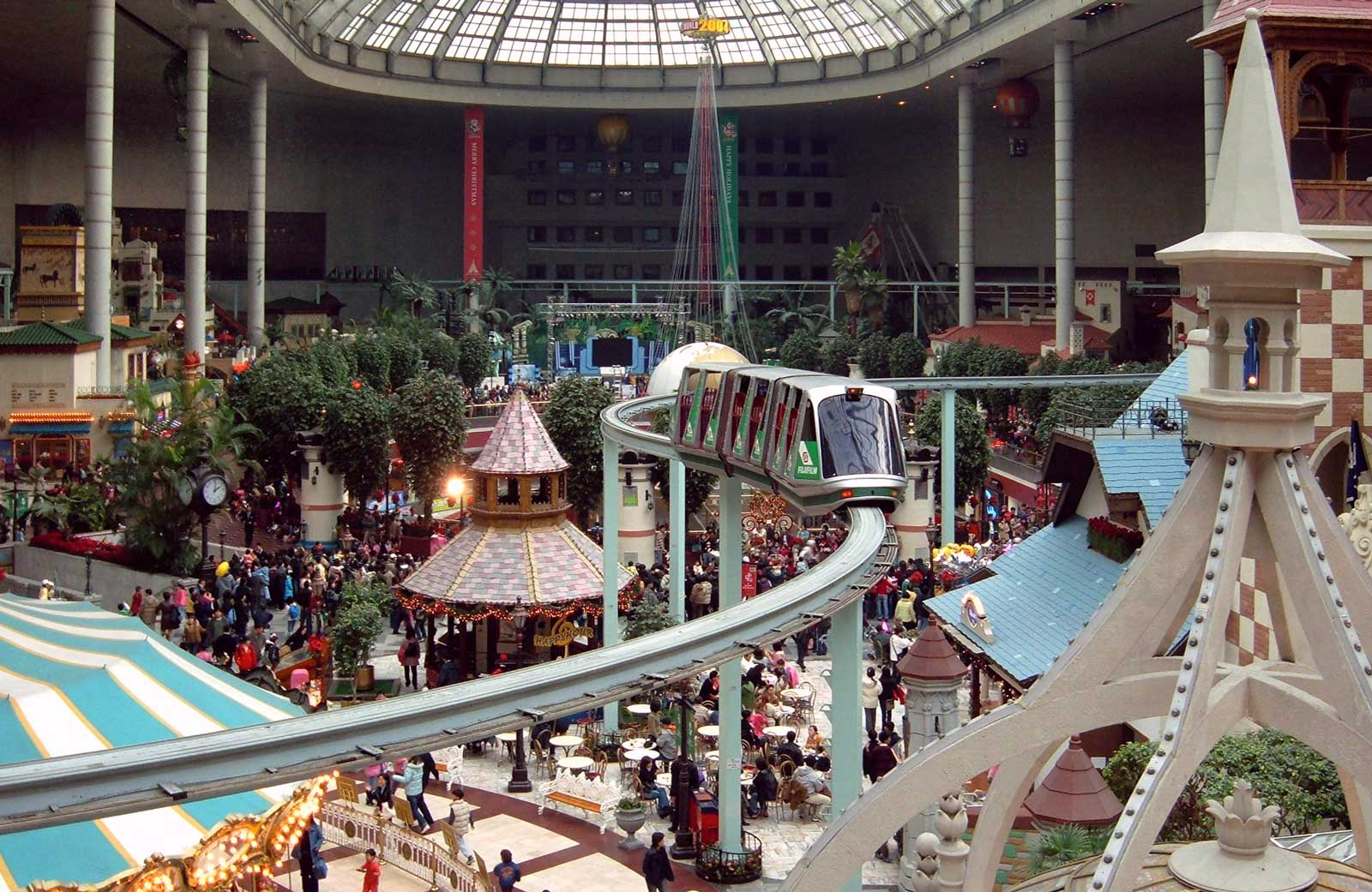 Intamin "People Porter" Monorail in Lotte World amusement park in Seoul, South Korea File downloaded from Flickr and modified original photo [